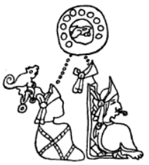 Historical events represented in the Aztec hieroglyphic manuscripts.The drawing on the left shows the death of the Aztec ruler, Ahuitzotl, in the year 10 Rabbit (1502 A.D.) and the accession of his nephew, Montezuma II. The mummy of a human figure bound with ropes, with a crown on its head, indicates the death of a ruler, a mummy being the Aztec hieroglyph for death. The little water-animal attached to the crown by a cord shows that the dead ruler's name was Ahuitzotl, that being the Aztec word for "water-animal." The right half of this drawing shows a man seated upon a dais, with a crown upon his head and a speech-scroll issuing from his mouth. The Aztec word for ruler was "tlahtouani," "he who speaks," shown graphically by the speech-scroll. Finally both figures are attached by cords to the circle above, which represents the year 10 Rabbit (1502 A.D.), indicating the date of this event. (The preceding text is directly quoted from the below source.)